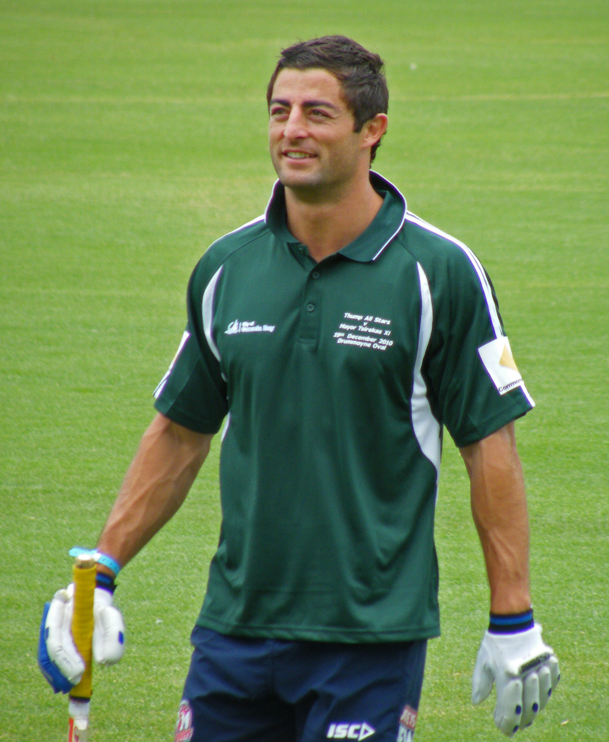 Anthony Minichiello - Charity Cricket Match, Drummoyne Oval, 19 December 2010.